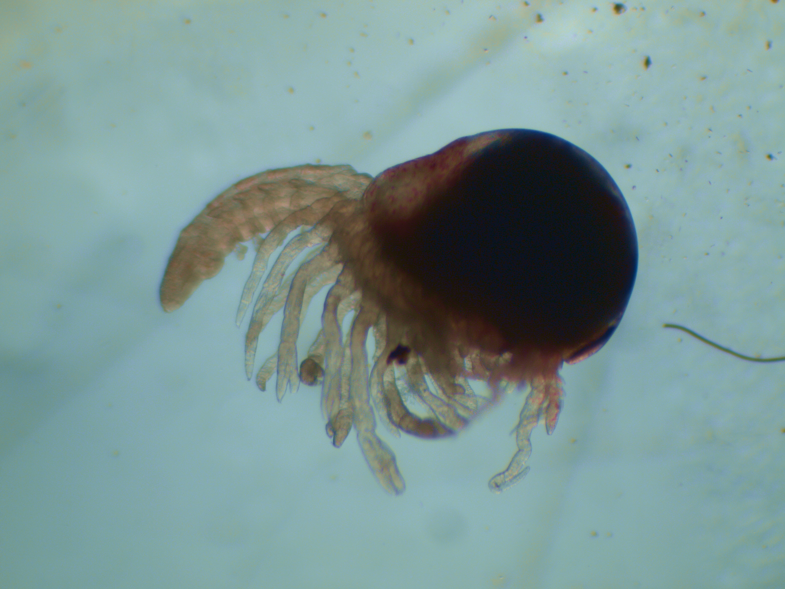 Zoea-Larva of the marmorkrebs or marbled crayfish, Procambarus sp., Cambaridae.